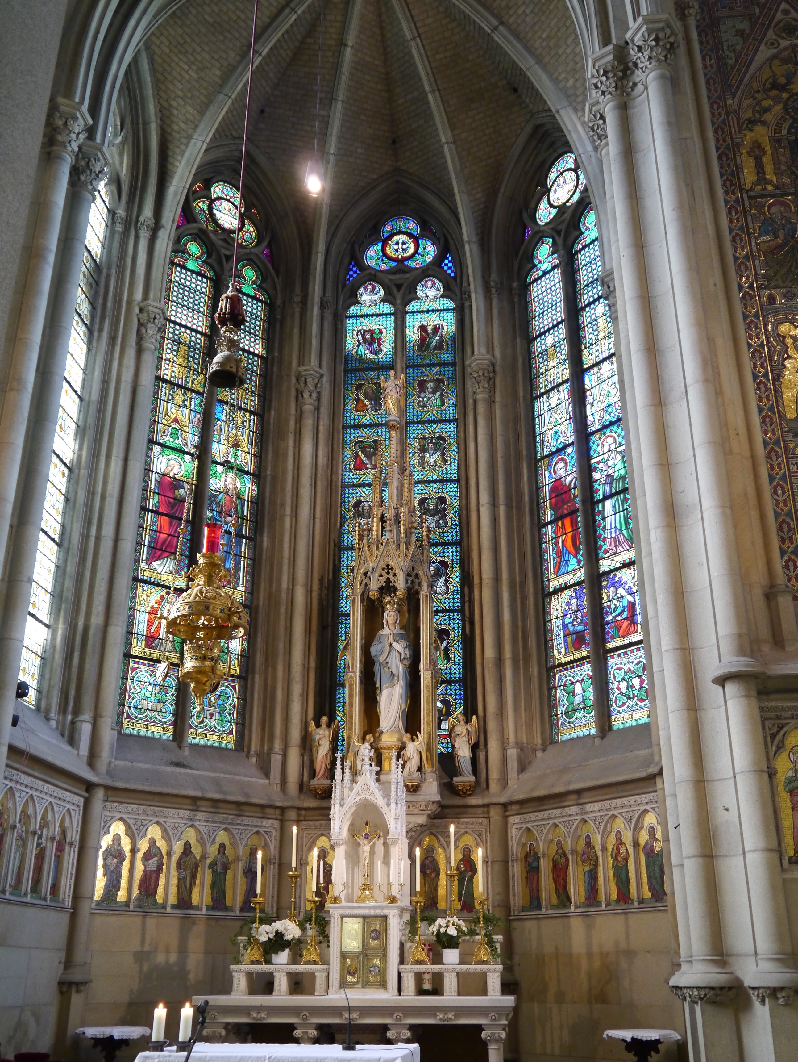 Chapel behind the choir of the New Cathedral, Linz